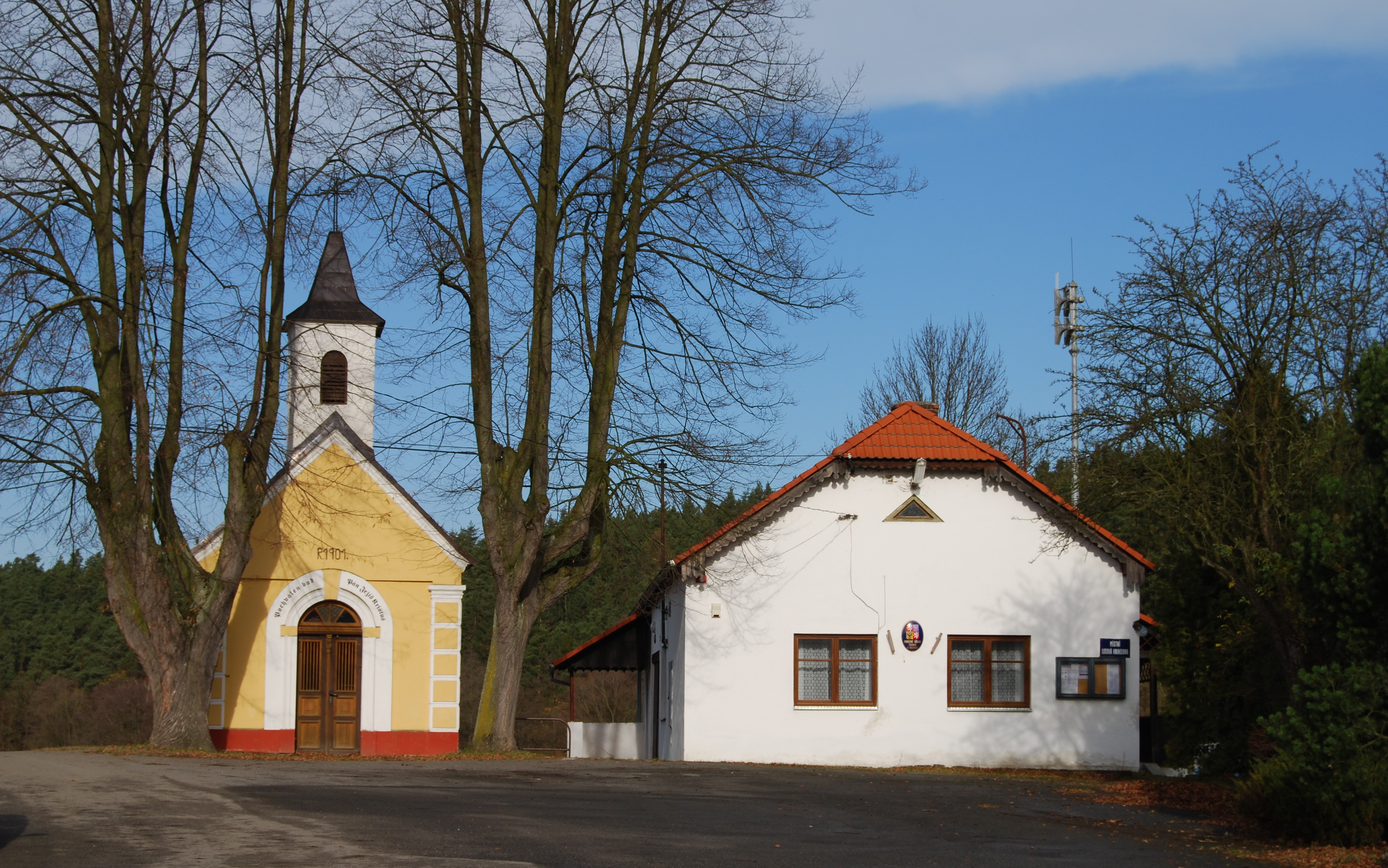 Čenkov u Bechyně village in České Budějovice District, Czech Republic. Chapel and municipality office.